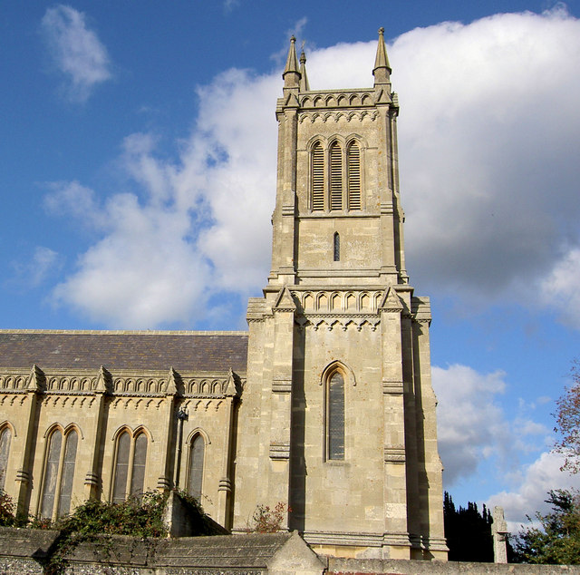 Southeast tower of Holy Trinity parish church, Theale, Berkshire, seen from the south